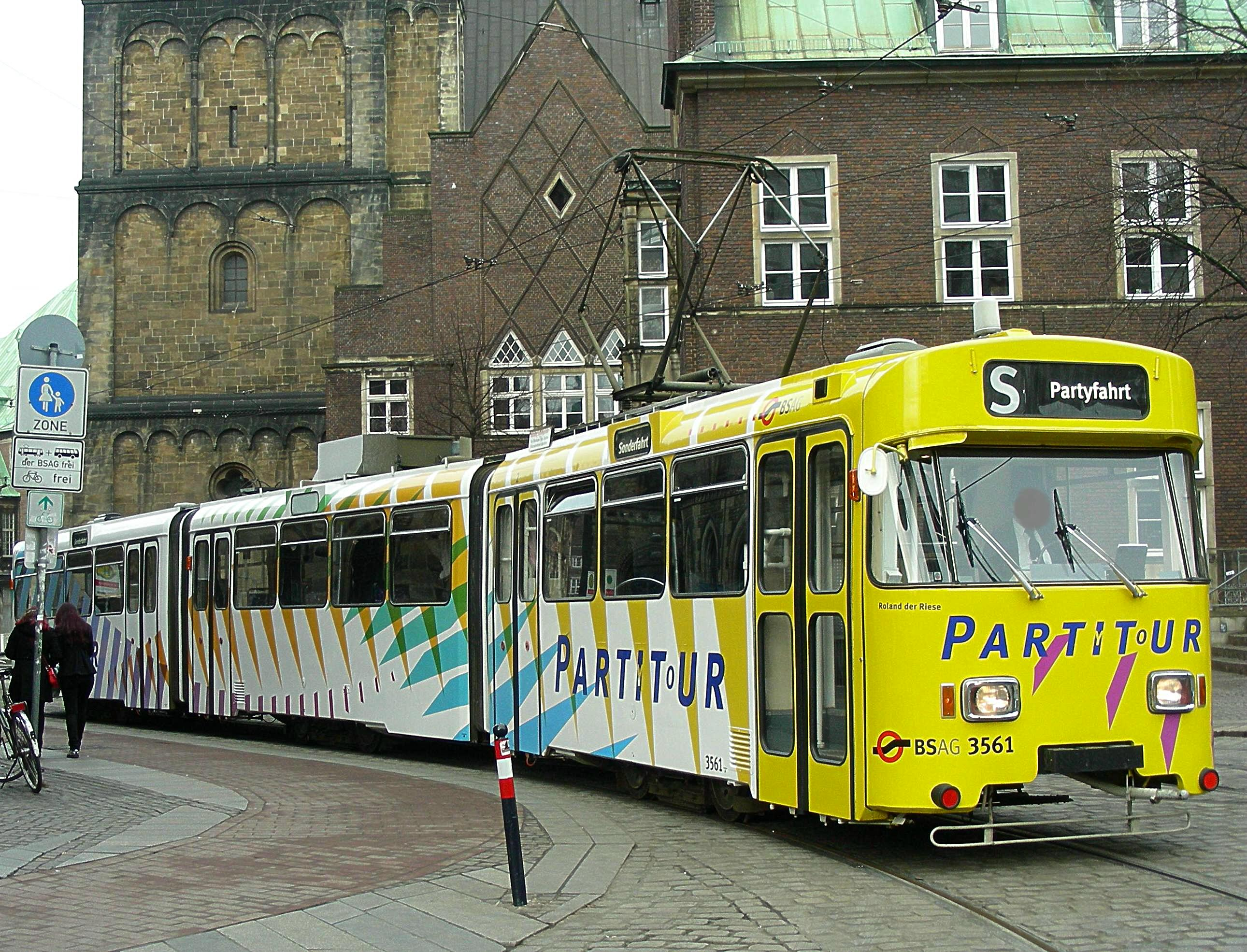 Special Event car of the Bremer Strassenbahn, called "Partitour" no. 3561 at Domsheide in Bremen